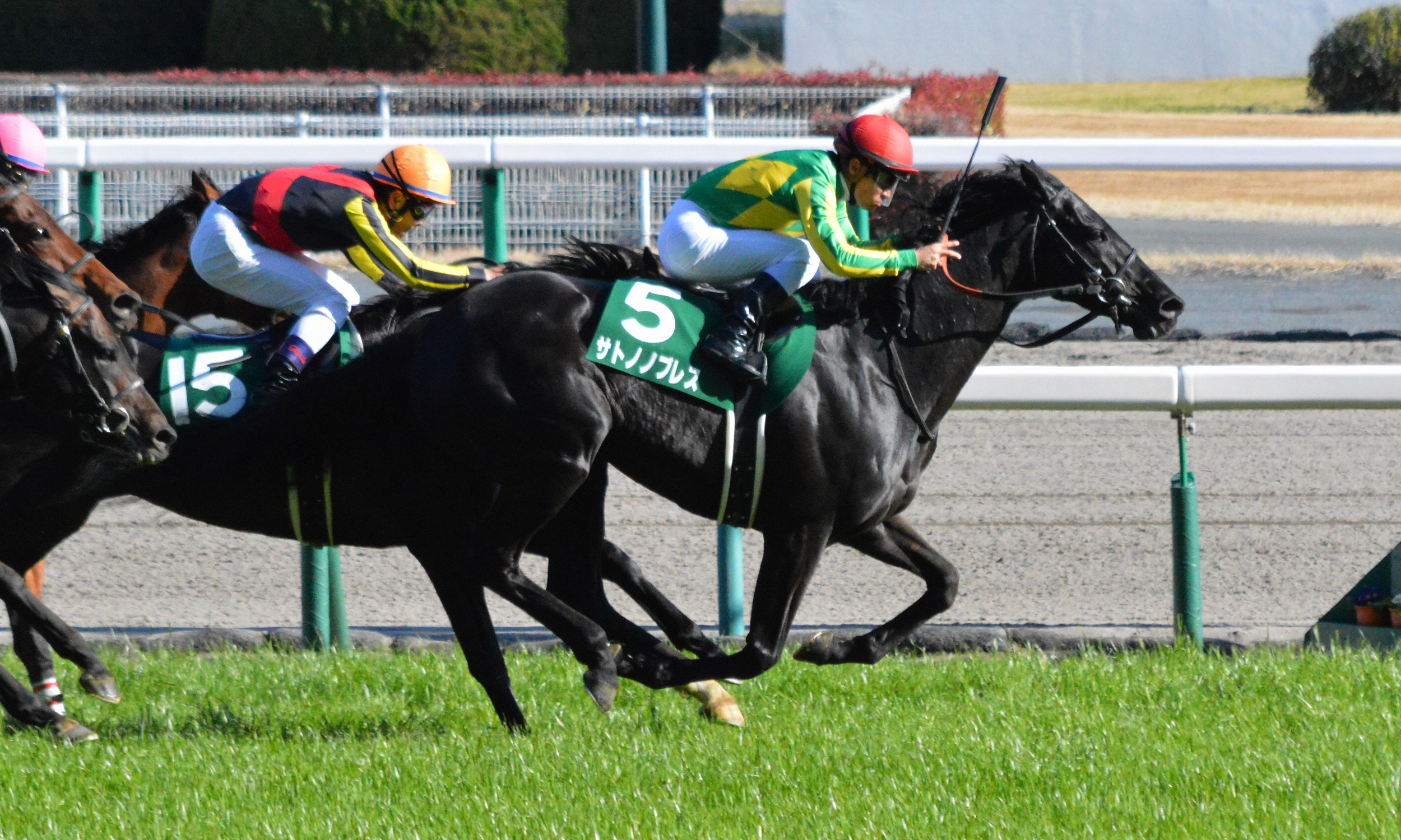 Japanese race horse Satono Noblesse at Chukyo racecourse.